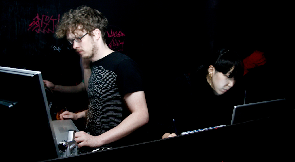 Max Hattler and Noriko Okaku live visual performance at Sucasa, Ulm, Germany